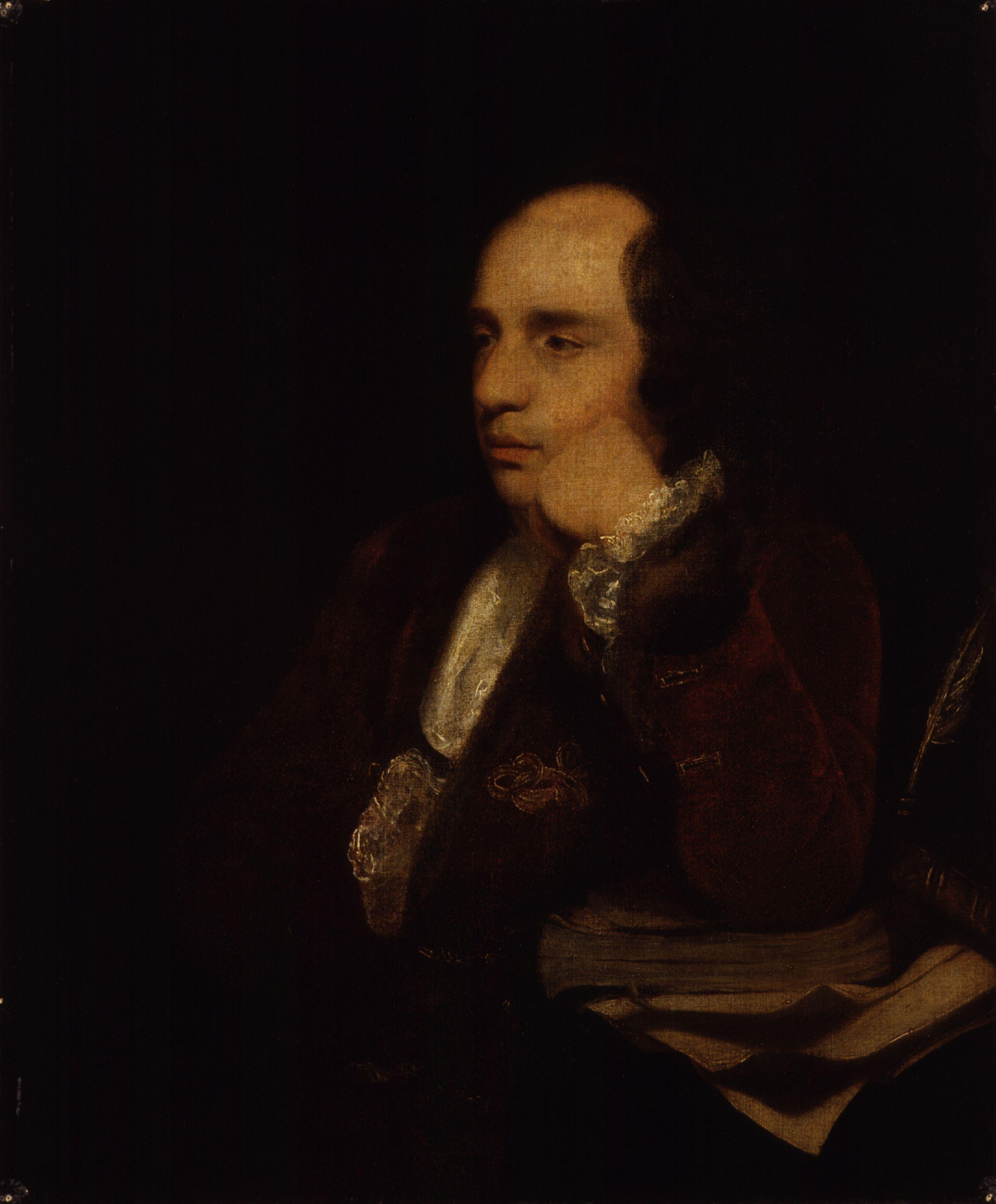 George Colman the Elder, by Sir Joshua Reynolds (died 1792). All images in this batch have been confirmed as author died before 1939 according to the official death date listed by the NPG.